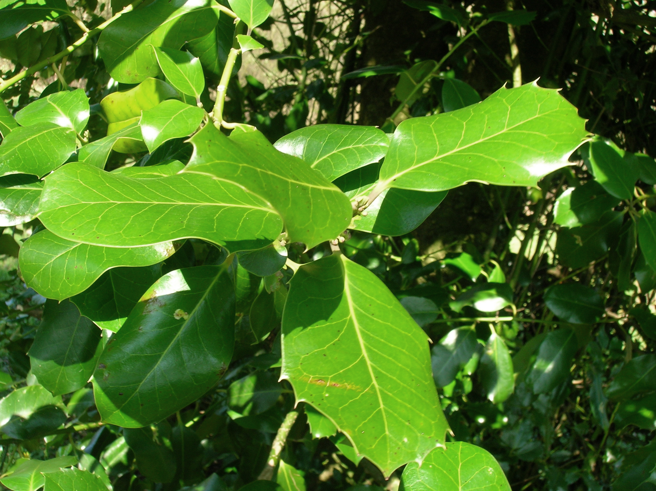 The 'Highclere Holly' hybrid variety, Ilex × altaclerensis. Seen at Spier's Old School Grounds, Beith, North Ayrshire, Scotland. The hybrid holly Ilex × altaclerensis (Highclere Holly) was developed at Highclere Castle in about 1835, by hybridising the Madeiran Ilex perado (grown in a greenhouse) with the local native Ilex aquifolium.